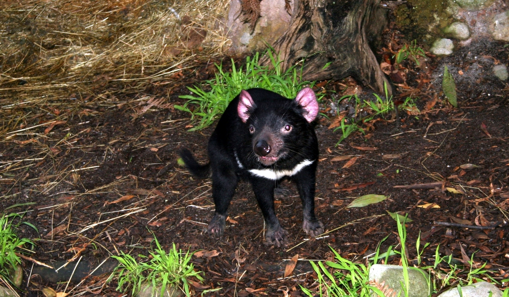 Tasmanian Devil.